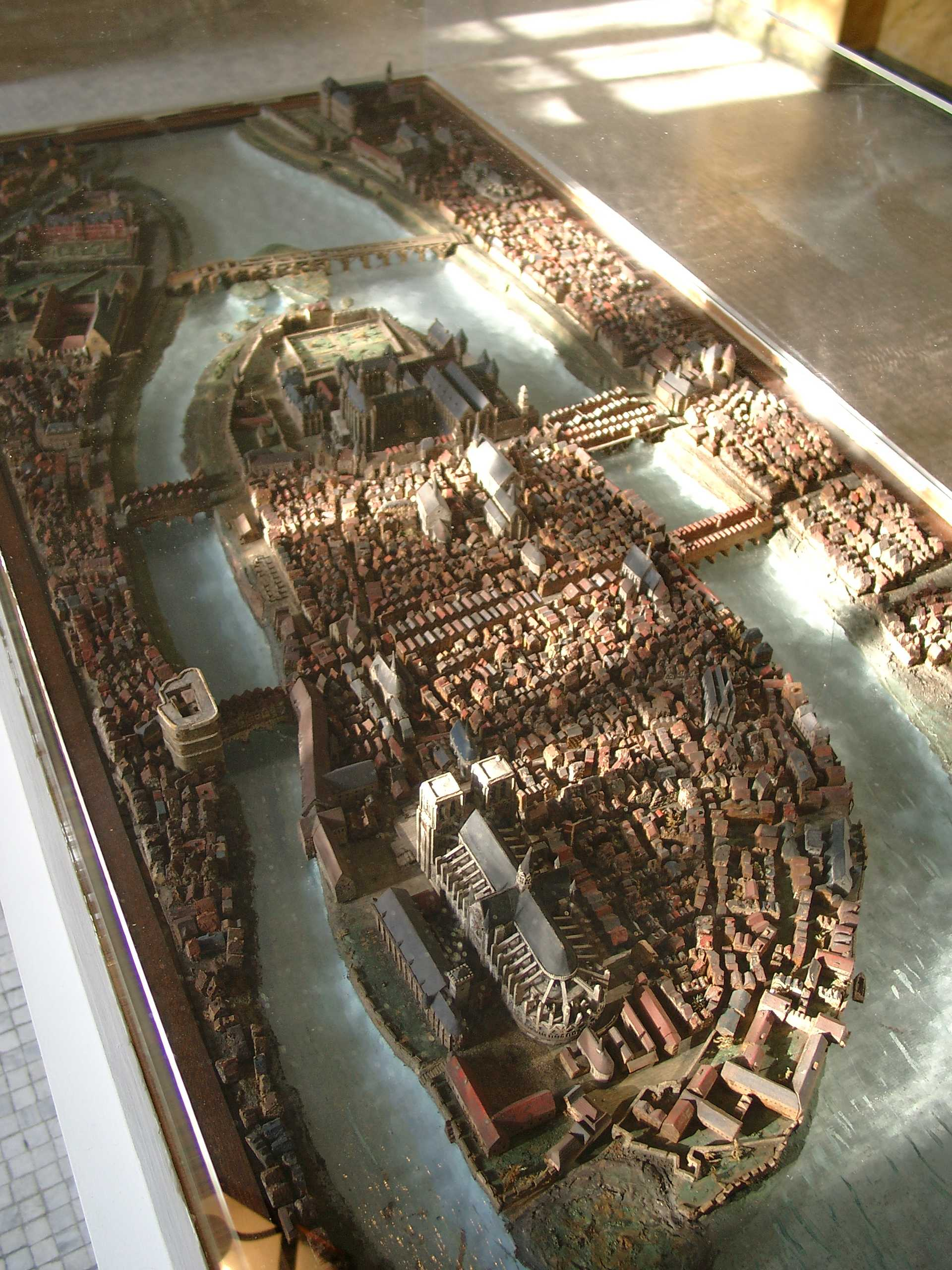 Model of medieval Paris (16.century), view from south-east; Musée Carnavalet (taking photos without flash is allowed)